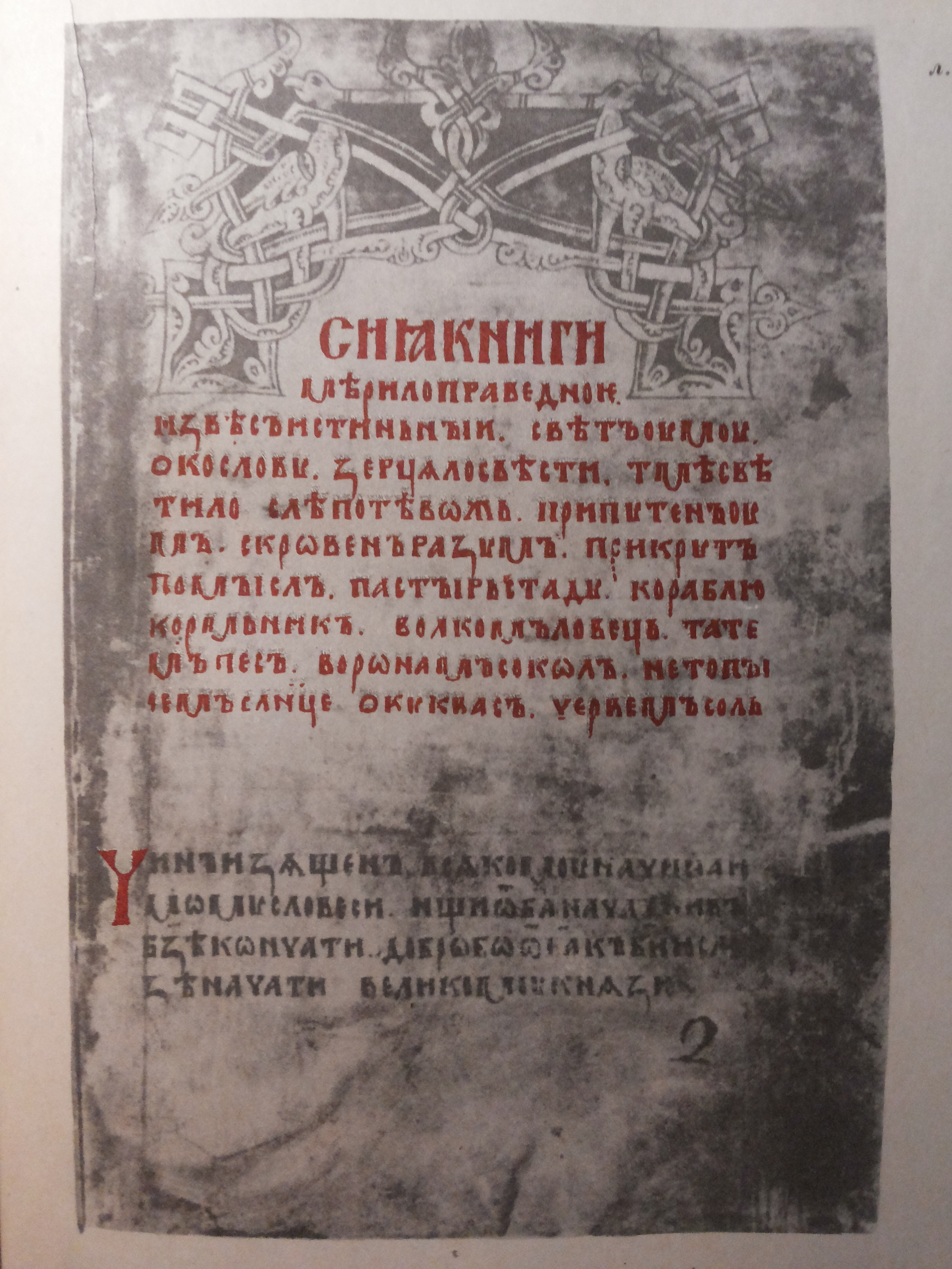 Merilo Pravednoe - Old Russian legal compilation, preserved in the manuscripts of the XIV-XVI centuries. Troitskiy codex XIV century, page 2.